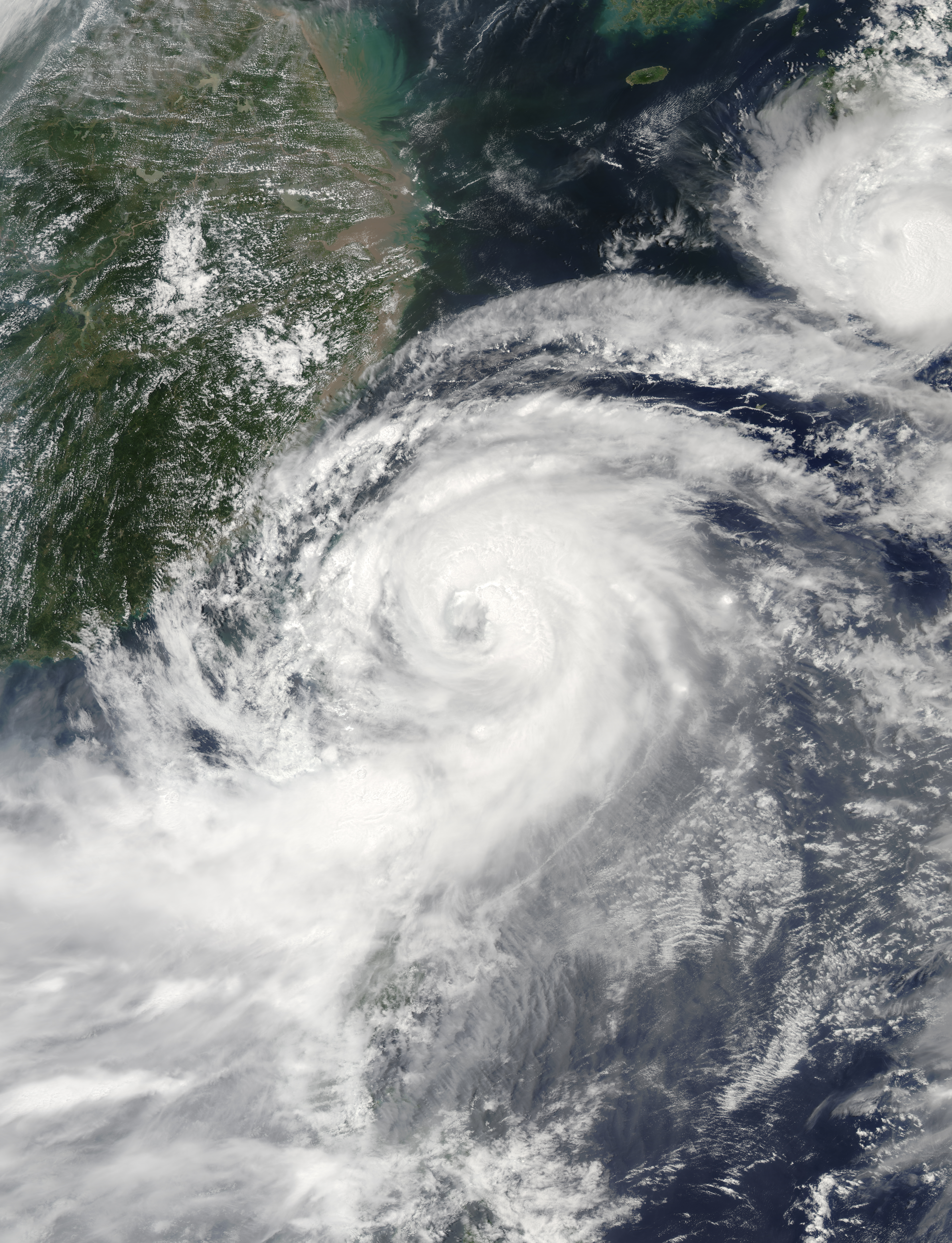 Typhoon Saola on July 30, 2012 as a Category 2 Typhoon, at peak intensity. Also seen Typhoon Damrey.